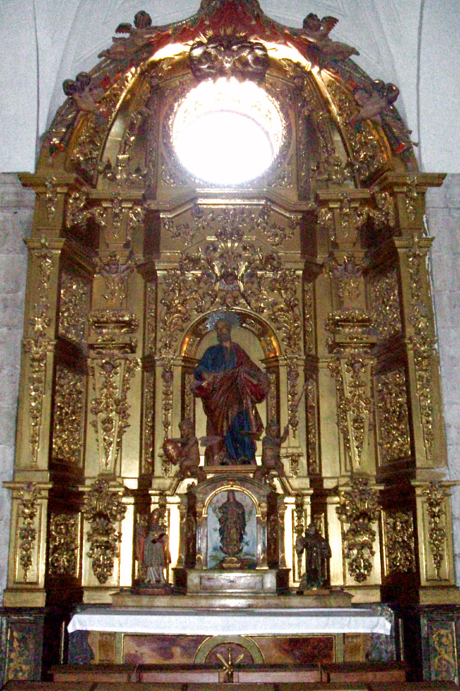 Capilla de San Pedro Apóstol de la Catedral de Valladolid (España)